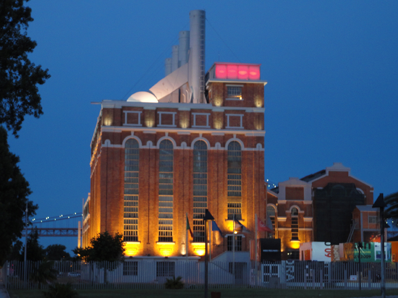 Museeu da Electricidade de Portugal